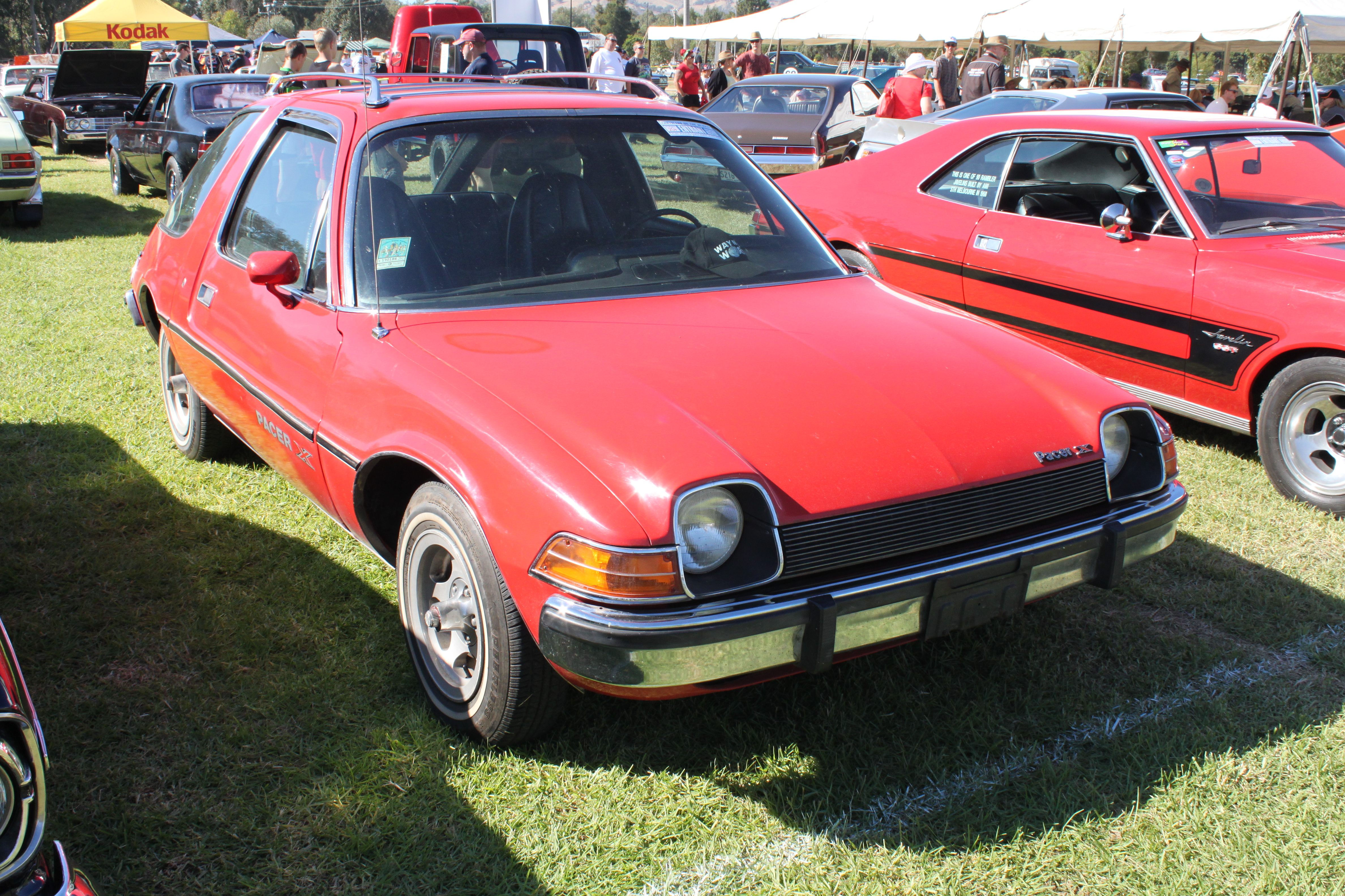 1976 AMC Pacer X at the Chryslers on the Murray 2015 show (2nd annual Australian AMC/Rambler show held in conjunction with the 23rd Chryslers on the Murray)